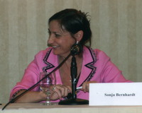 Sonja Bernhardt presenting at WITI Conference in Silicon Valley, December 2005